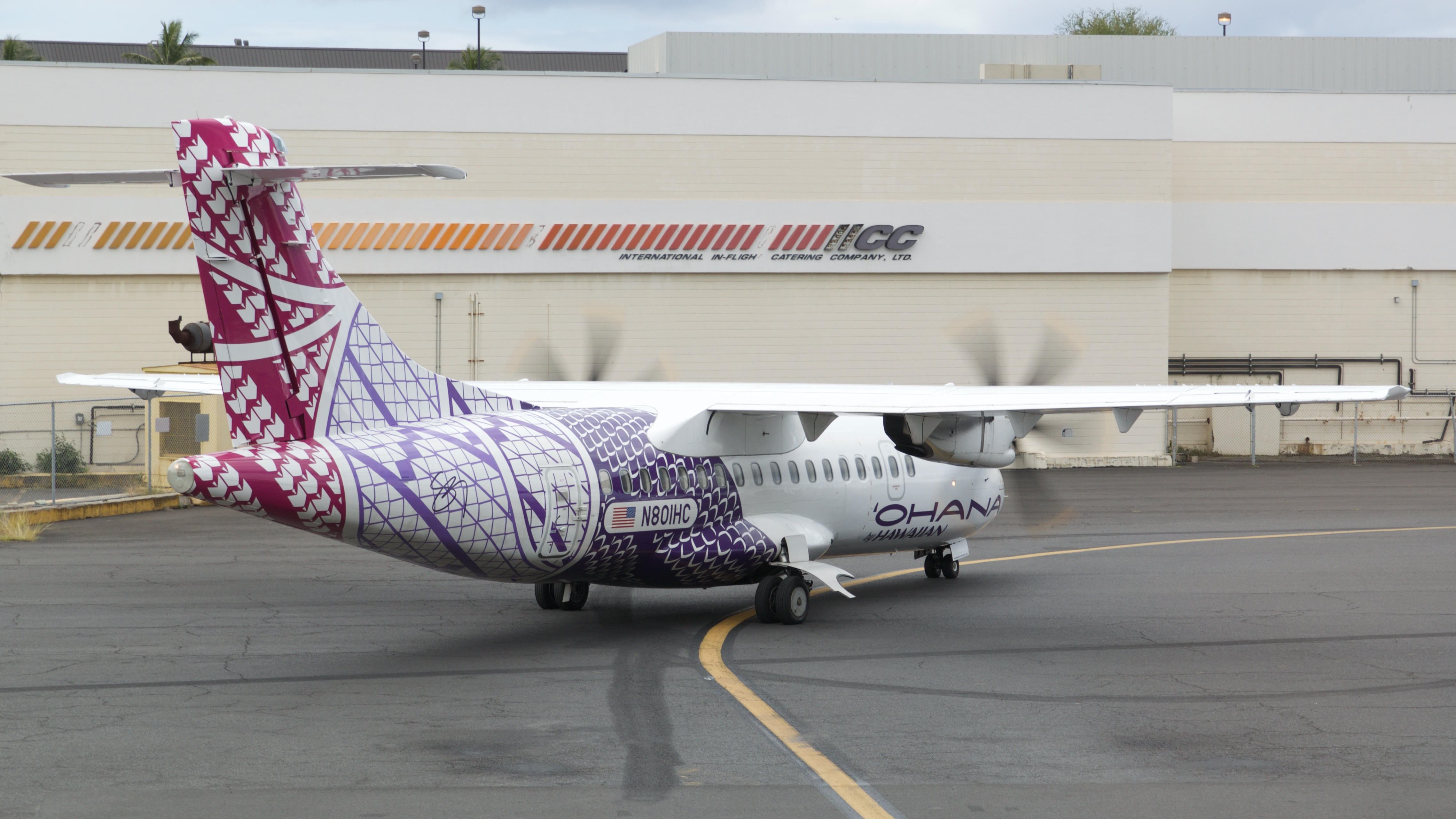 ʻOhana by Hawaiian ATR 42